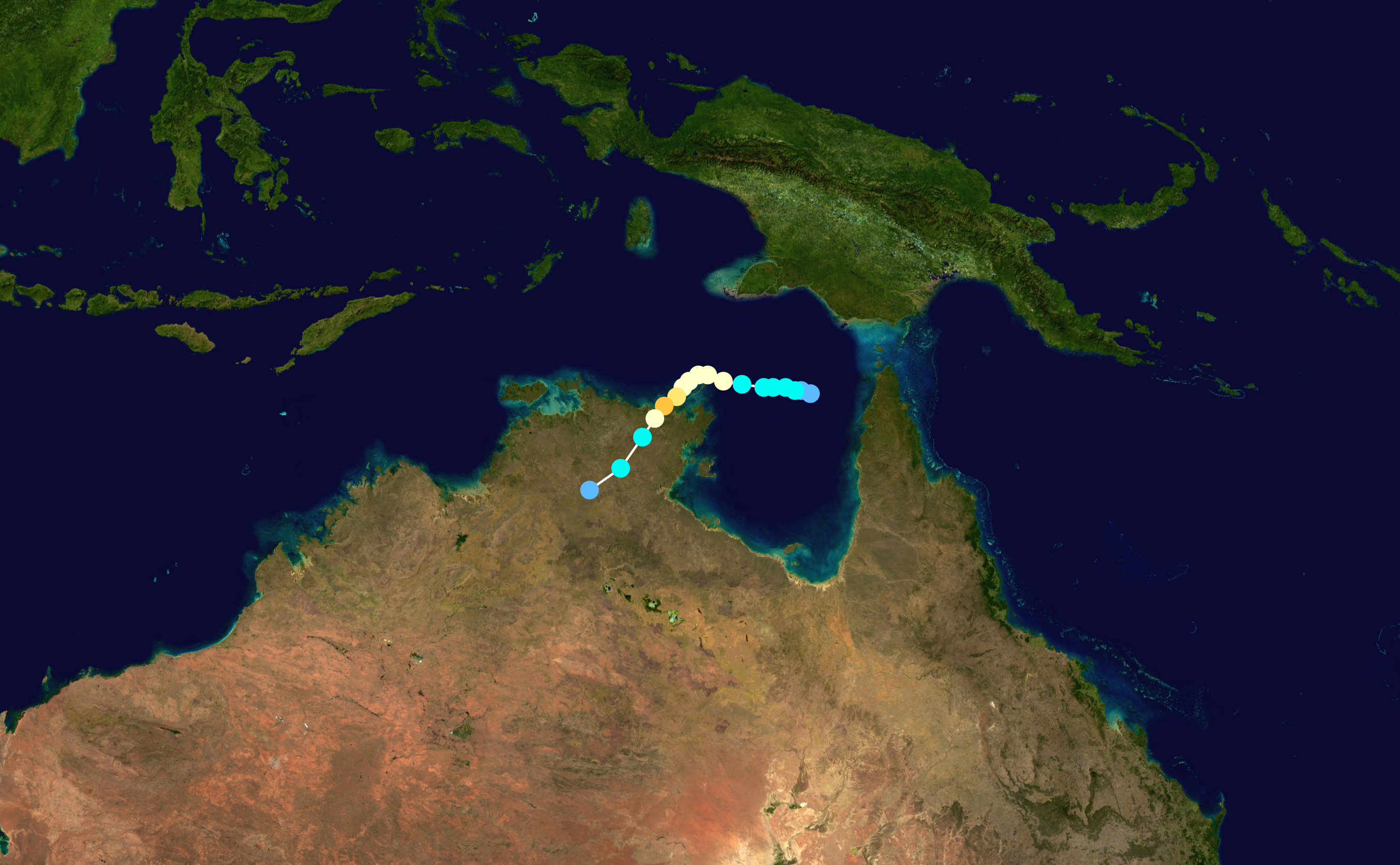 Track map of Severe Tropical Cyclone Lam of the 2014-15 Australian region cyclone season. The points show the location of the storm at 6-hour intervals. The colour represents the storm's maximum sustained wind speeds as classified in the Saffir–Simpson scale (see below), and the shape of the data points represent the nature of the storm, according to the legend below. Saffir–Simpson scale Tropical depression≤38 mph≤62 km/h Category 3111–129 mph178–208 km/h Tropical storm39–73 mph63–118 km/h Category 4130–156 mph209–251 km/h Category 174–95 mph119–153 km/h Category 5≥157 mph≥252 km/h Category 296–110 mph154–177 km/h Unknown Storm type Tropical cyclone Subtropical cyclone Extratropical cyclone / Remnant low / Tropical disturbance / Monsoon depression